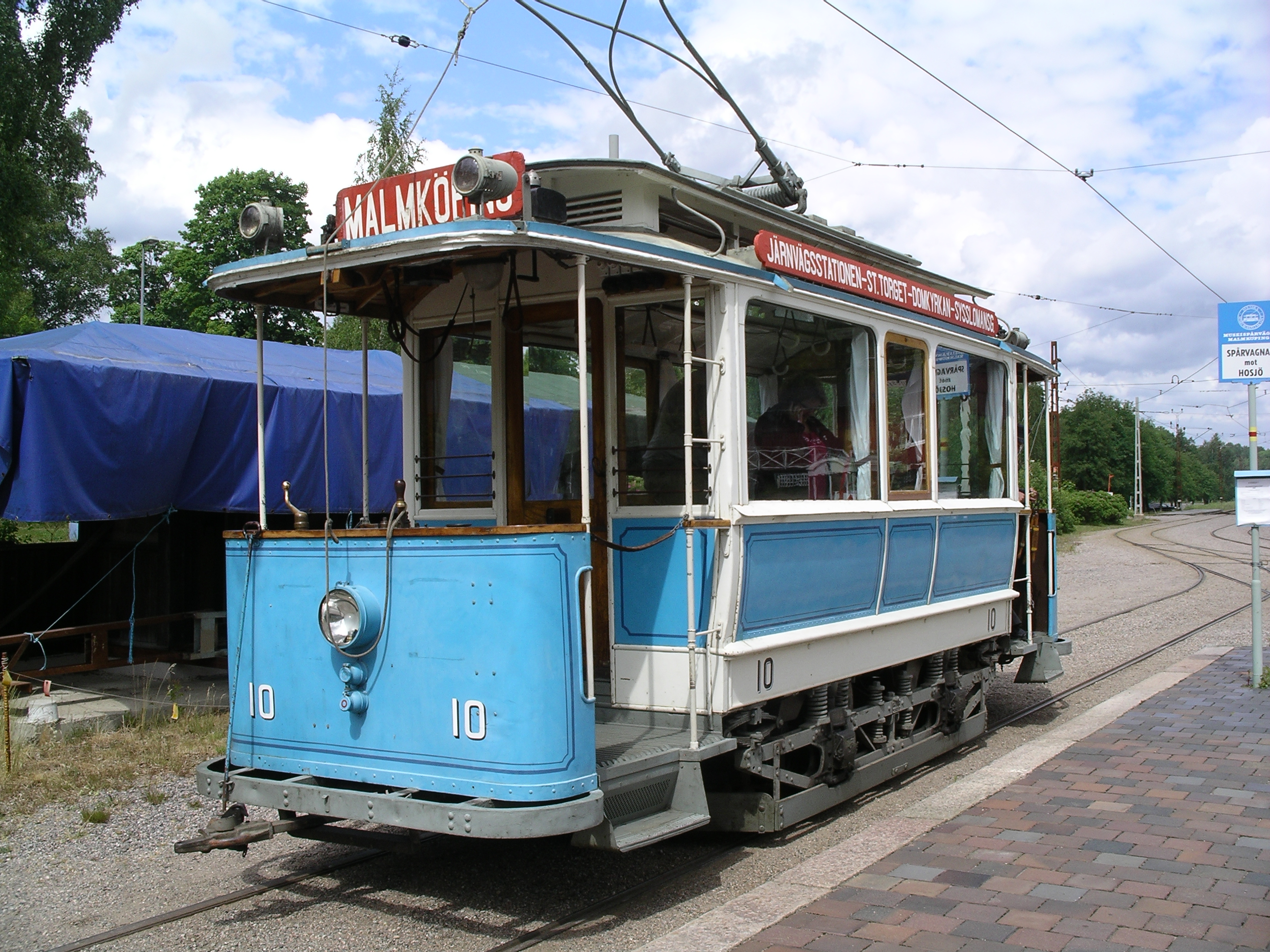 Tramway No 10 from Uppsala in Malmköping, Sweden